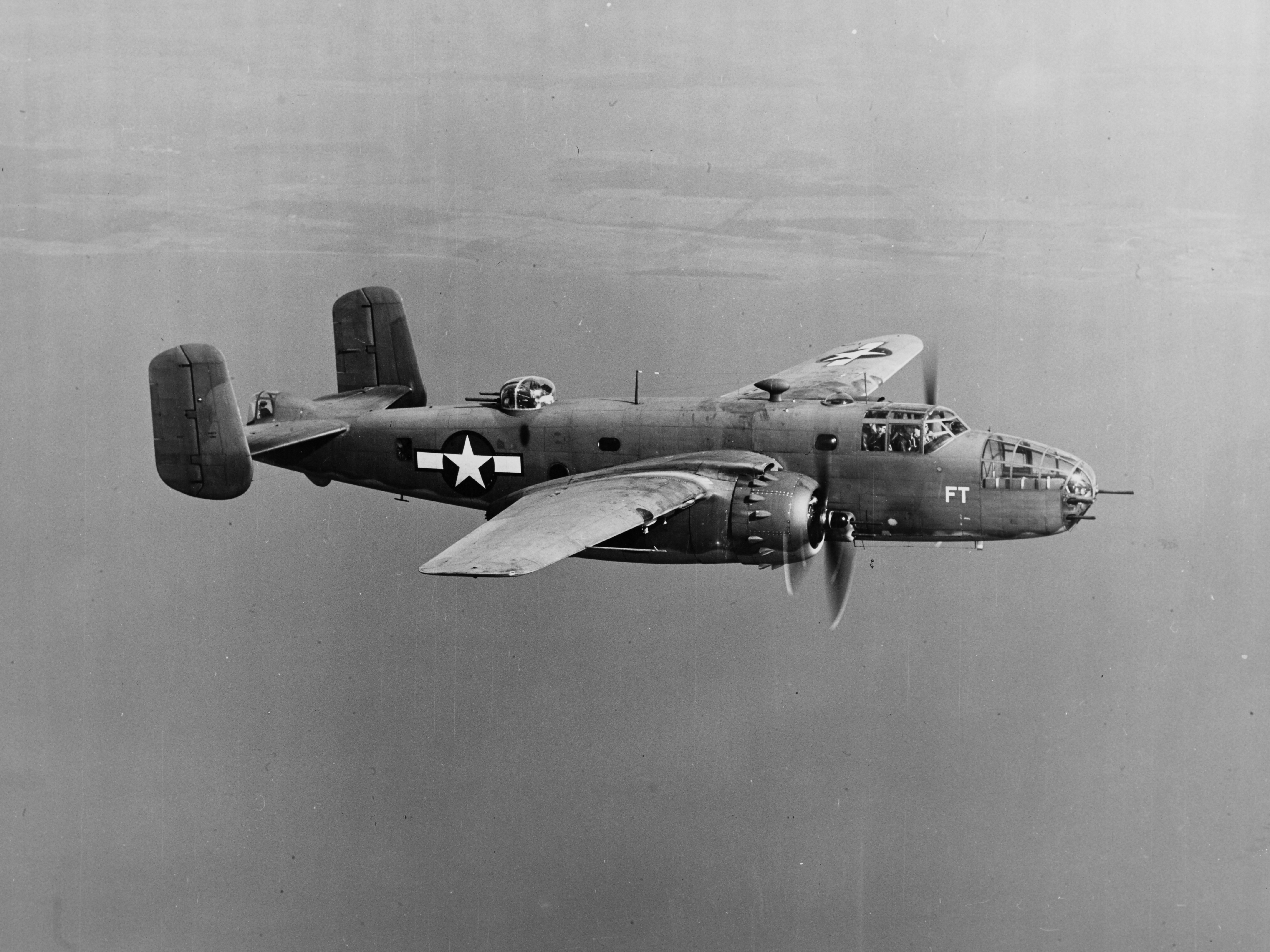 A U.S. Navy North American PBJ-1D Mitchell (BuNo 35094) in flight near the Naval Air Test Center Patuxent River, Maryland (USA), on 28 February 1944.